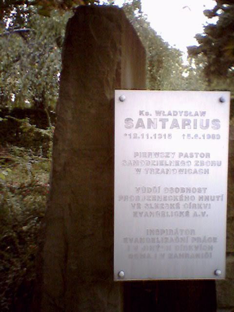 Memorial of Lutheran Pastor Vladislav Santarius (1915-1989) in Třanovice, Frýdek-Místek District, Czech republic (Detail) [Authors: Ota Cienciala and Karel Cieślar]